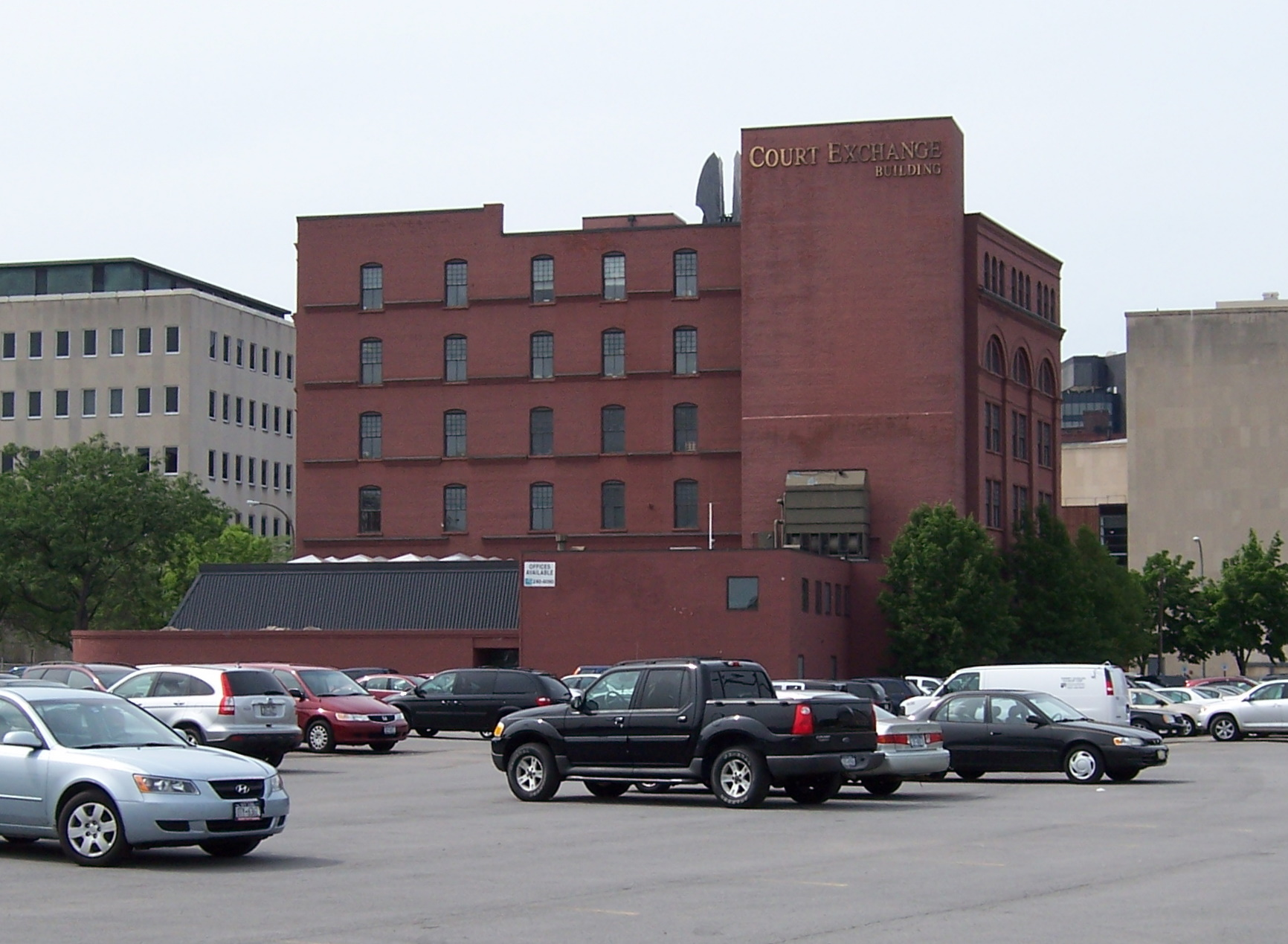 The Court–Exchange Building in downtown Rochester, New York. It was built for a casket manufacturer, later merged into the National Casket Company. It is listed on the National Register of Historic Places. The metal "Wings of Progress" sculpture visible above the building's roof do not belong to this building but are mounted on a building some distance behind it. The building on the far left of the image is the Blue Cross Arena at the Rochester War Memorial.